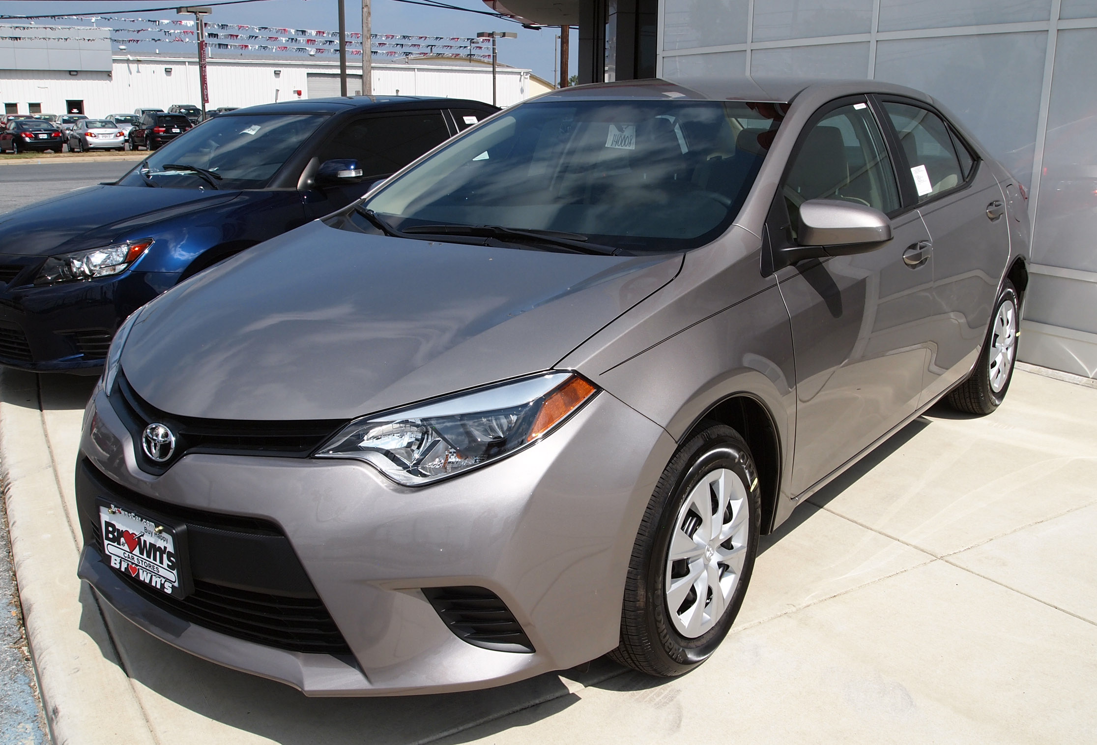 U.S. market Toyota Corolla, 12th generation